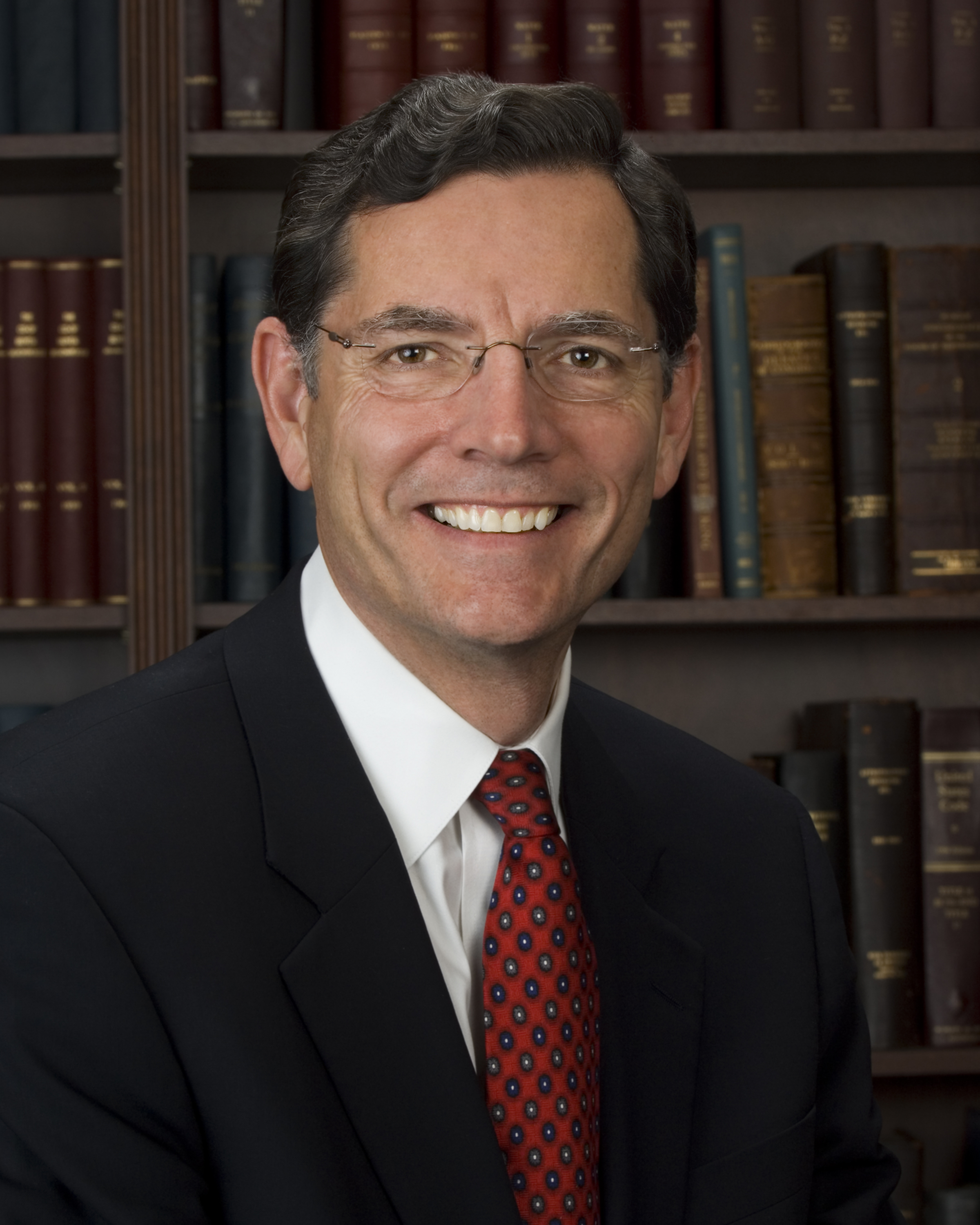 Senator John Barrasso photo portrait.